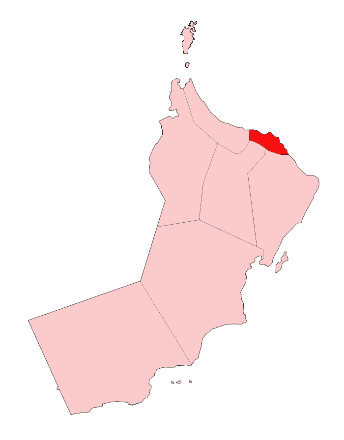 Map of Oman showing Masqat (Muscat) governorate